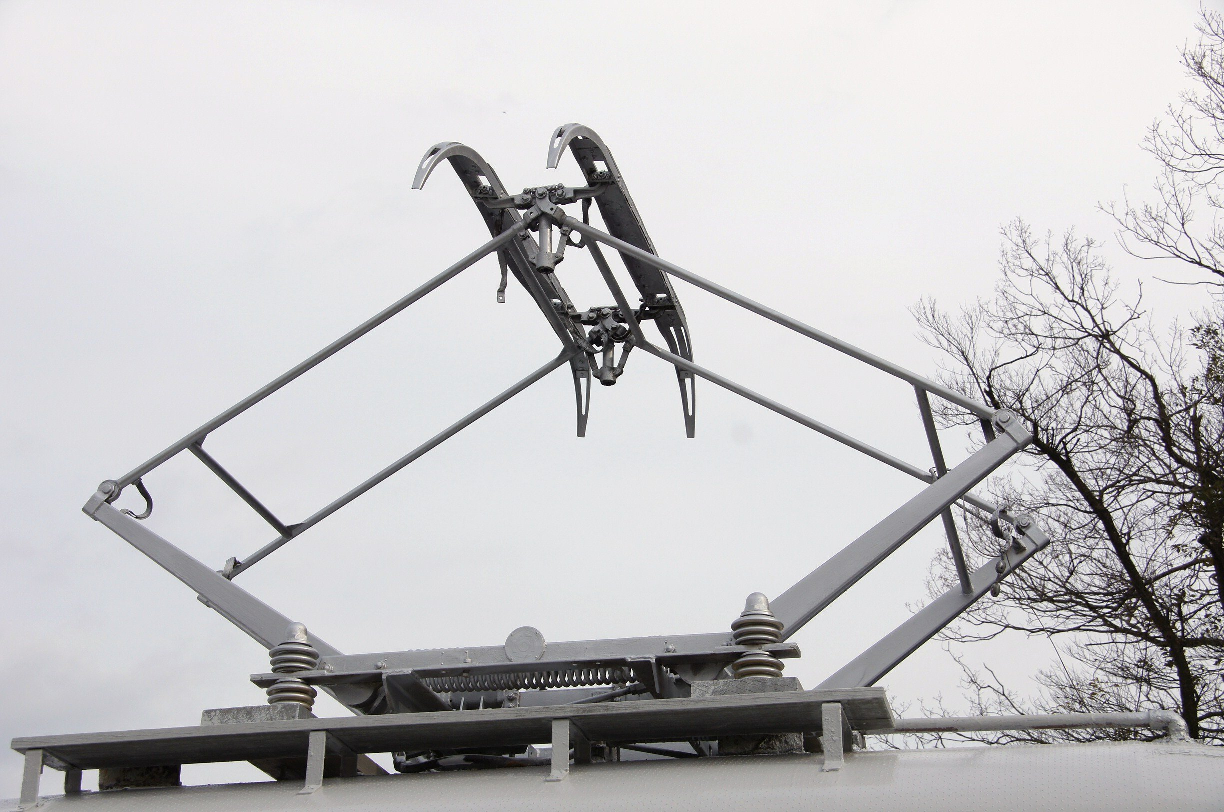 Pantograph of former Choshi Electric Railway EMU car DeHa 702 preserved at Poppo-no-oka in Isumi, Chiba